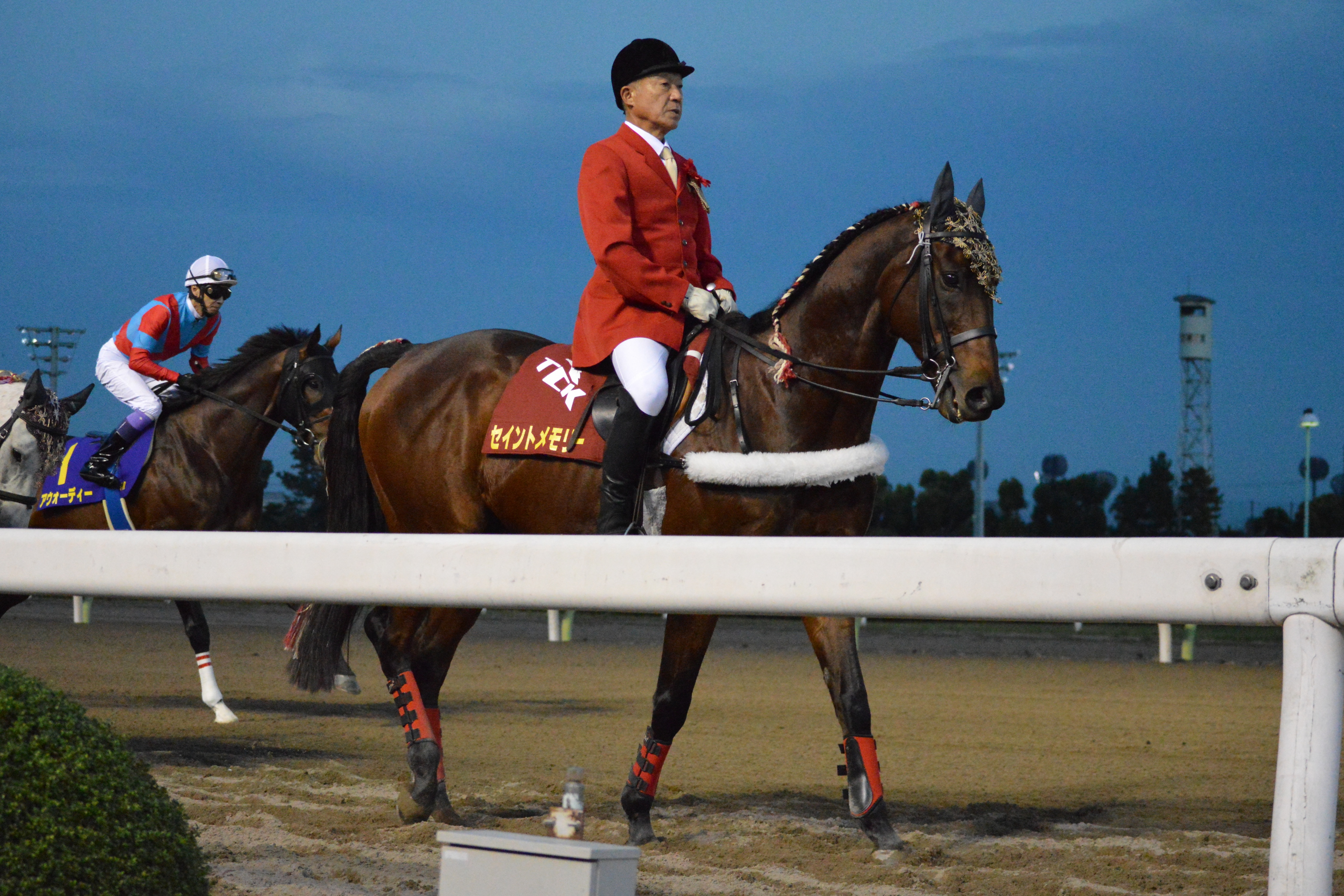 Japanese race horse Saint Memory at Oi racecourse.